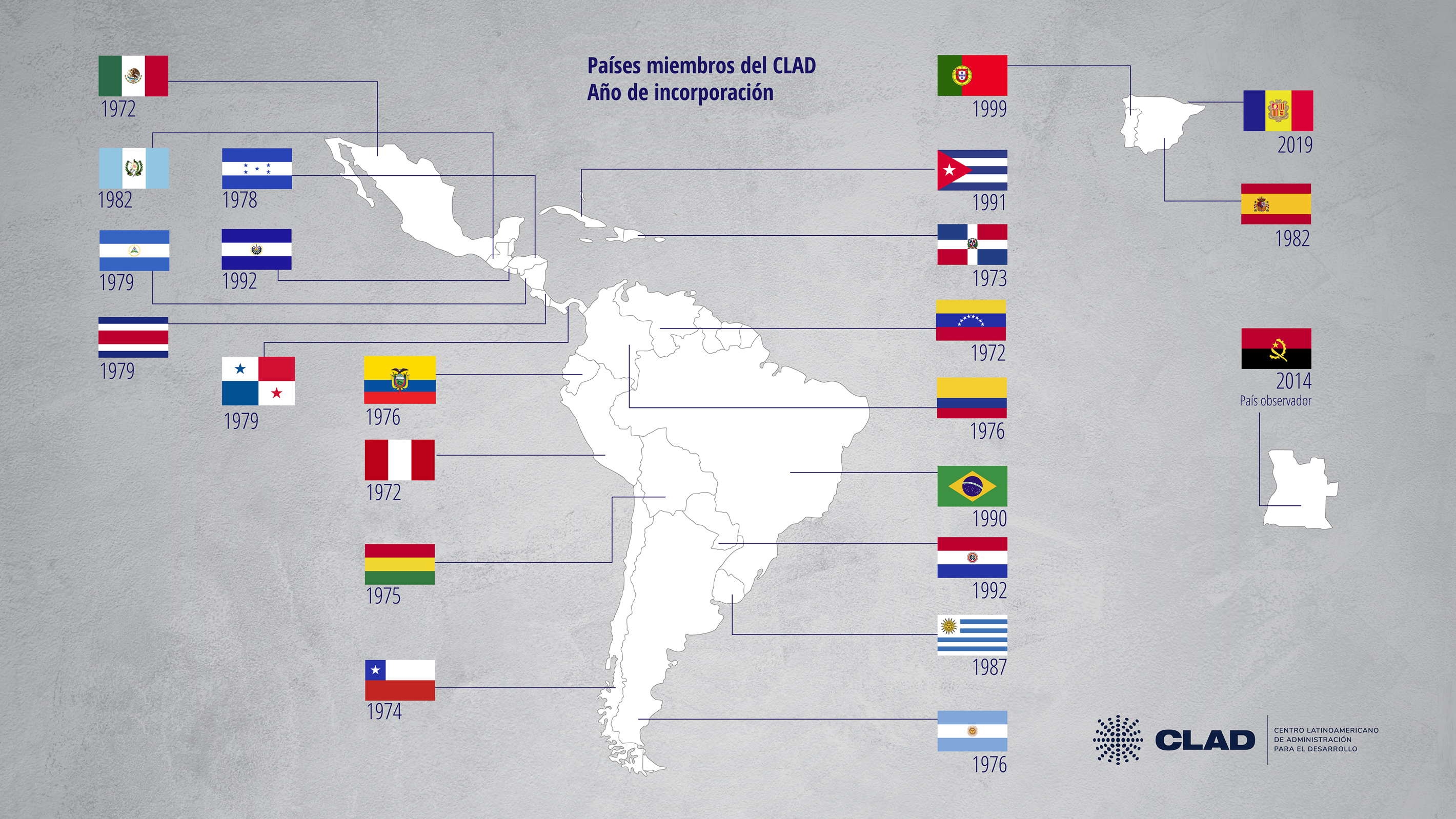 Paises miembros del CLAD con su año de incorporación